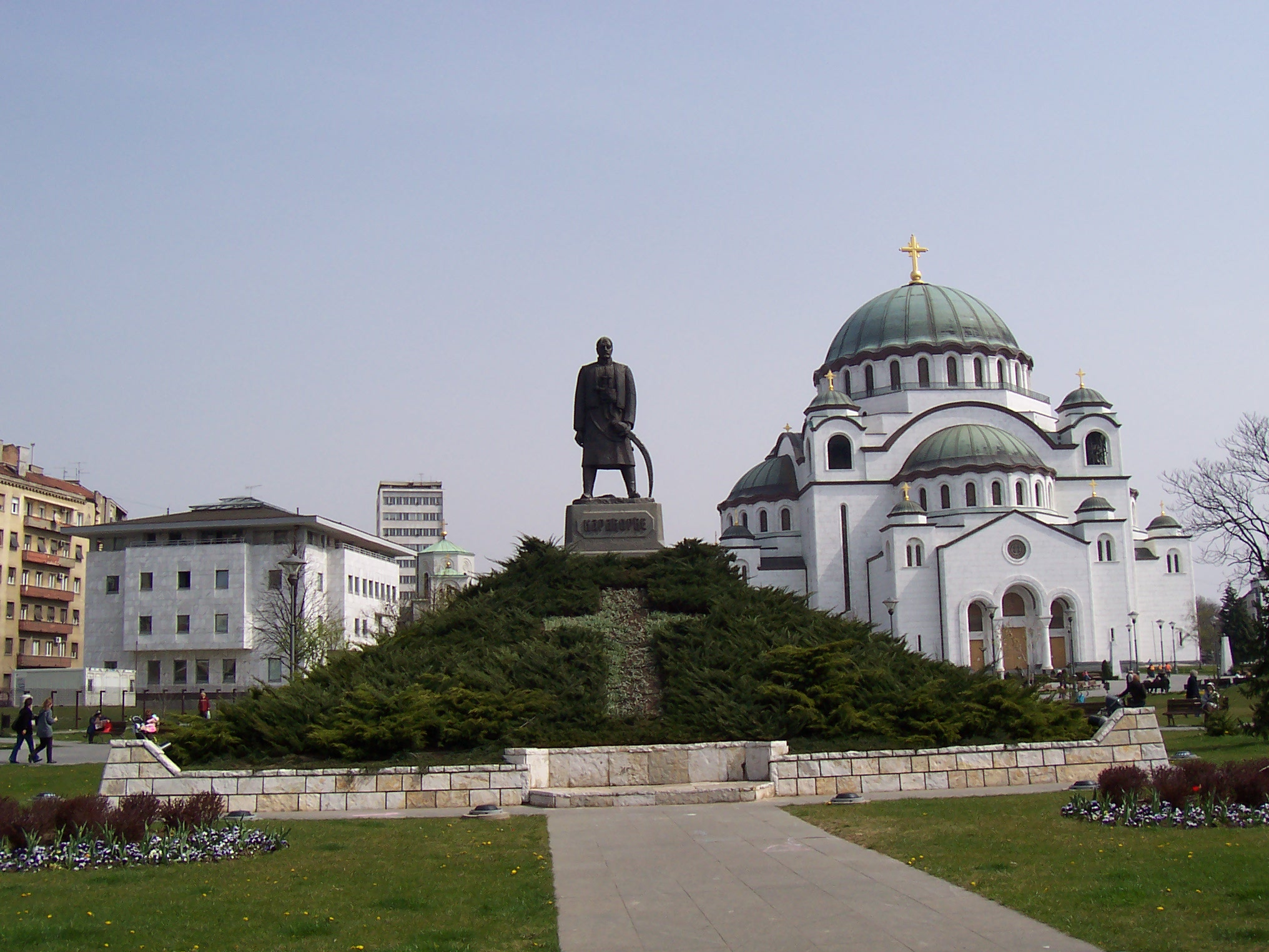 Monument to Karadjordje on Vracar.